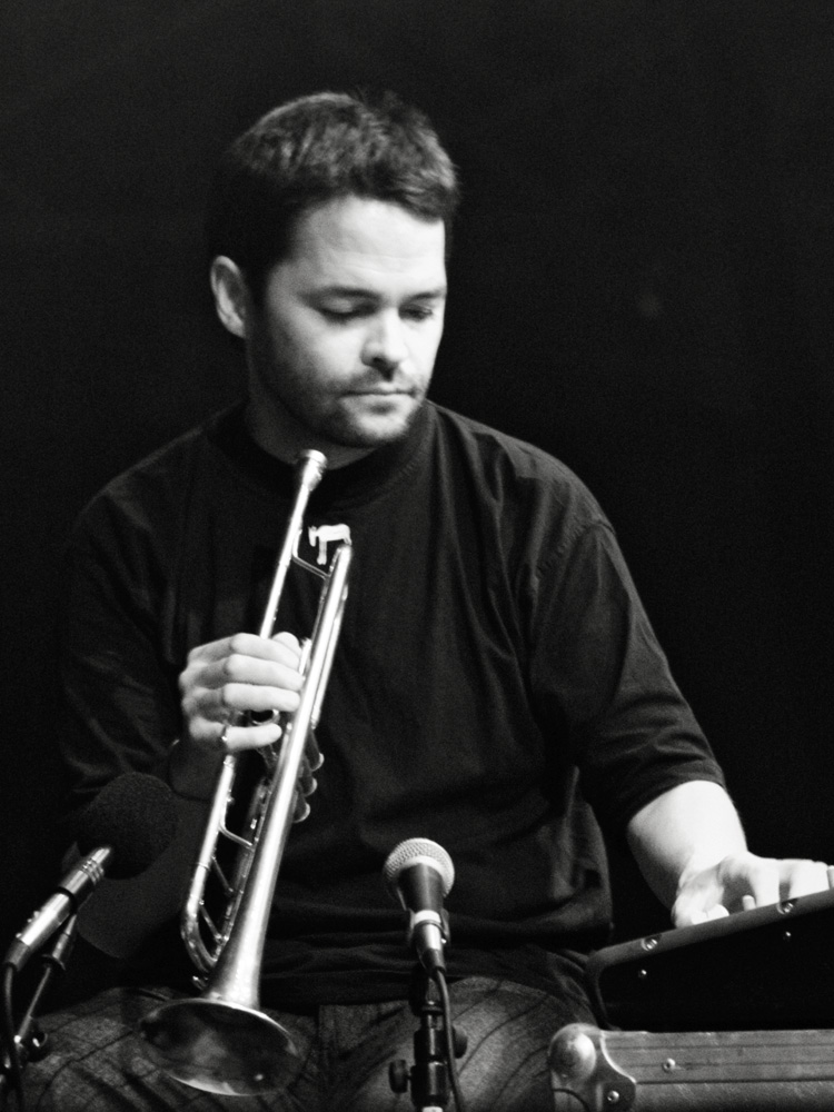 Arve Henriksen at Moers Festival 2006 own photo 06-02-2006 photo: nomo/michael hoefner